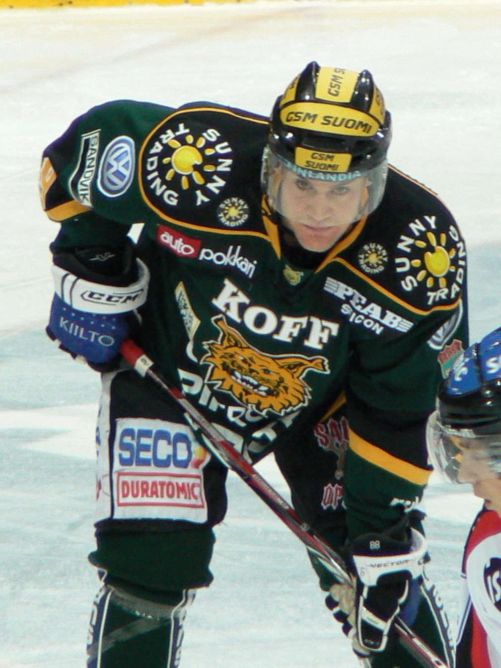 Canadian hockey forward Geoff Platt playing for Ilves Tampere of the Finnish SM-liiga, in December, 2008.